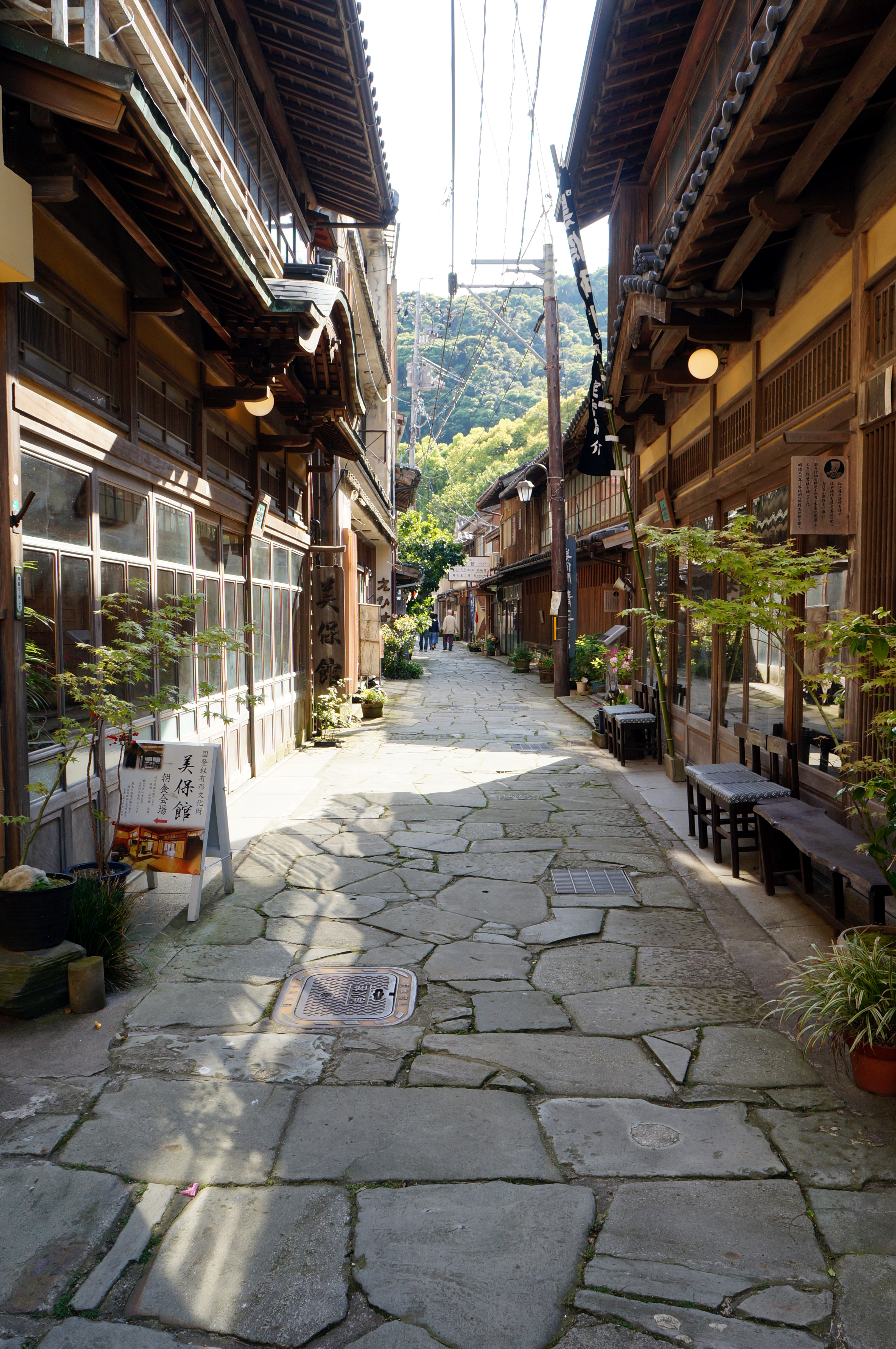 Aoishidatami Dori (Mihonoseki, Matsue, Shimane Prefecture, Japan)